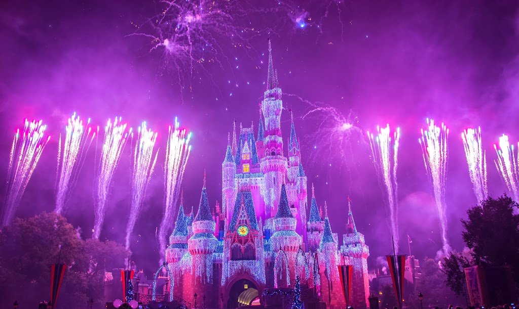 Fireworks go up in sky before the Cinderella castle, Disneyland.